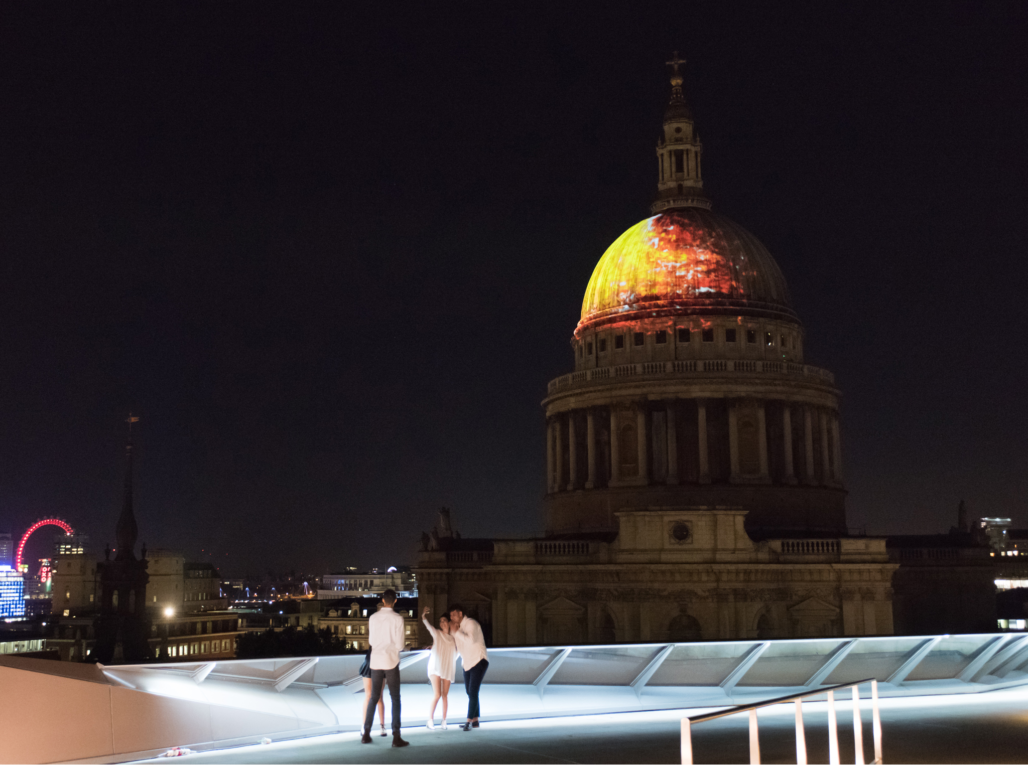 Projection of fire to the dome of St Paul's Cathedral by public artist Martin Firrell, commissioned by Artichoke to mark the 350th anniversary of the Great Fire of London